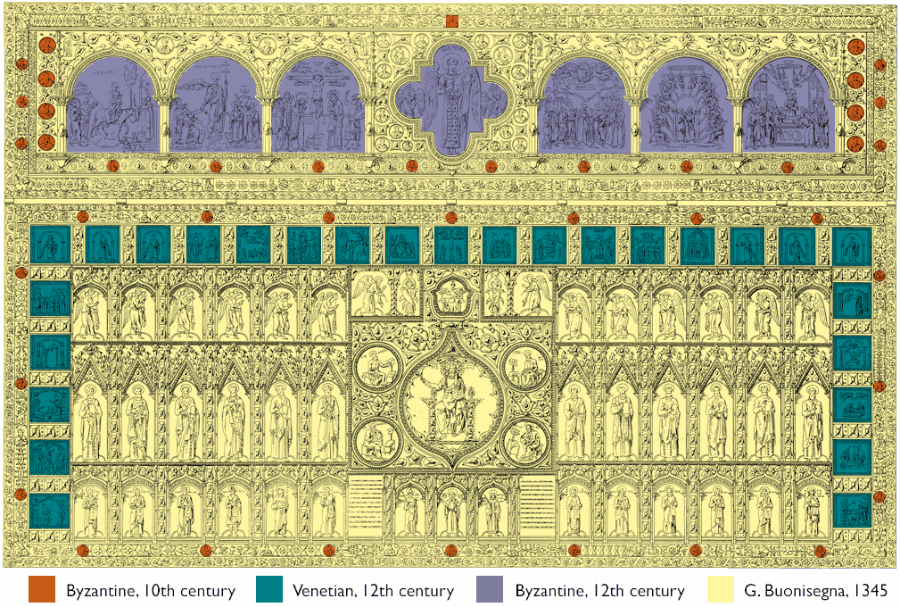 The so-called Pala d’Oro, the golden back side of the main altar of the Basilica di San Marco in Venezia, Italy. This image shows the development of the arrangement from single elements. English description.